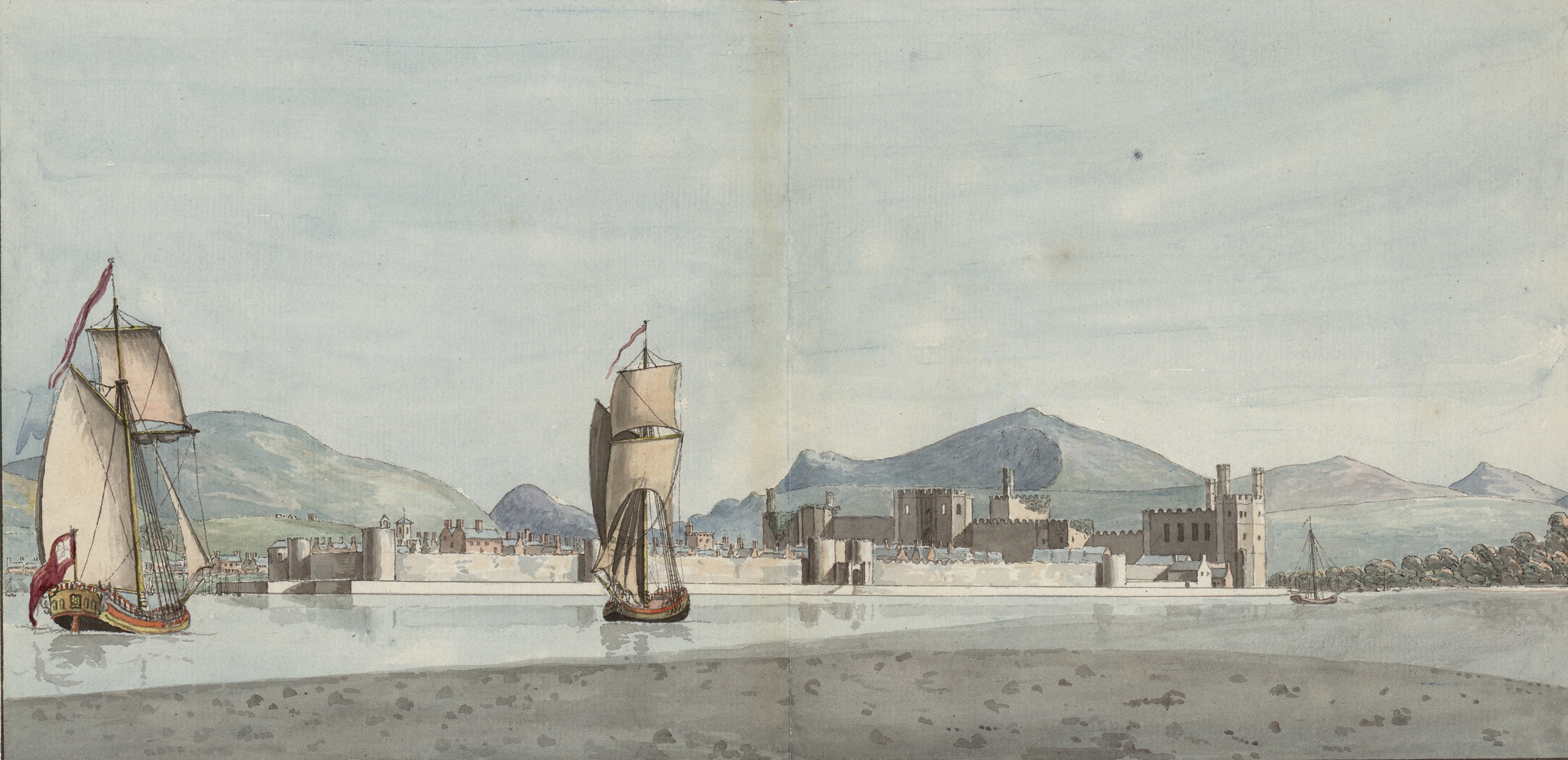 An image from a set of 8 extra-illustrated volumes of A tour in Wales by Thomas Pennant (1726-1798) that chronicle the three journeys he made through Wales between 1773 and 1776. These volumes are unique because they were compiled for Pennant's own library at Downing. This edition was produced in 1781. The volumes include a number of original drawings by Moses Griffiths, Ingleby and other well known artists of the period. Thomas Pennant (1726-1798)